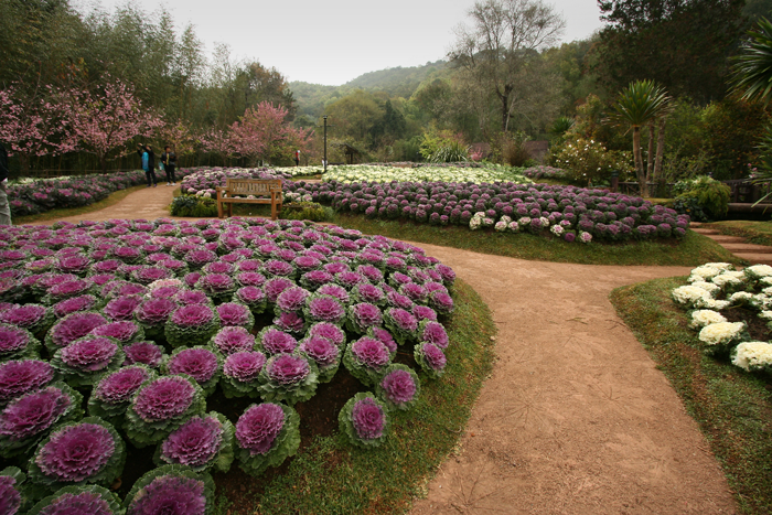 Doi Ang Khang is a mountain in Fang District, Chiang Mai province, northern Thailand.